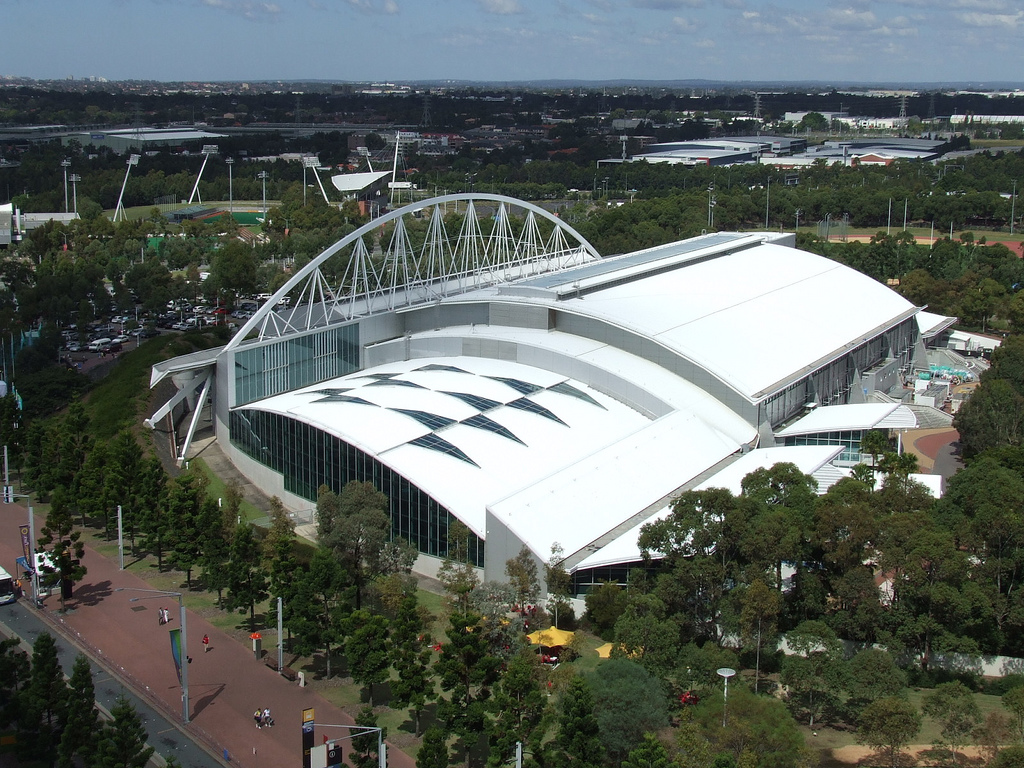 Photo taken from the top of the Novotel across the road